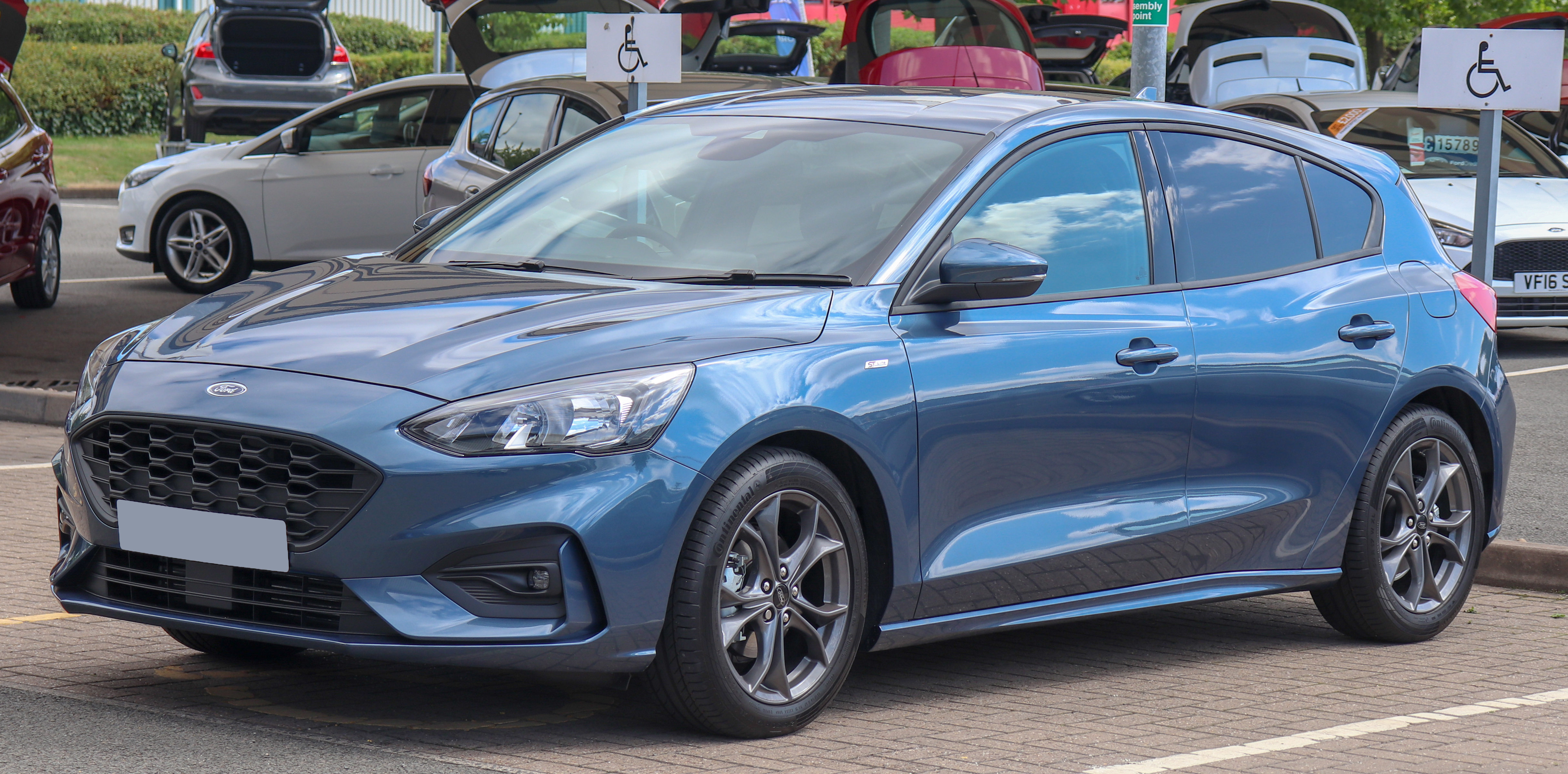 2018 Ford Focus ST-Line EcoBoost 1.0